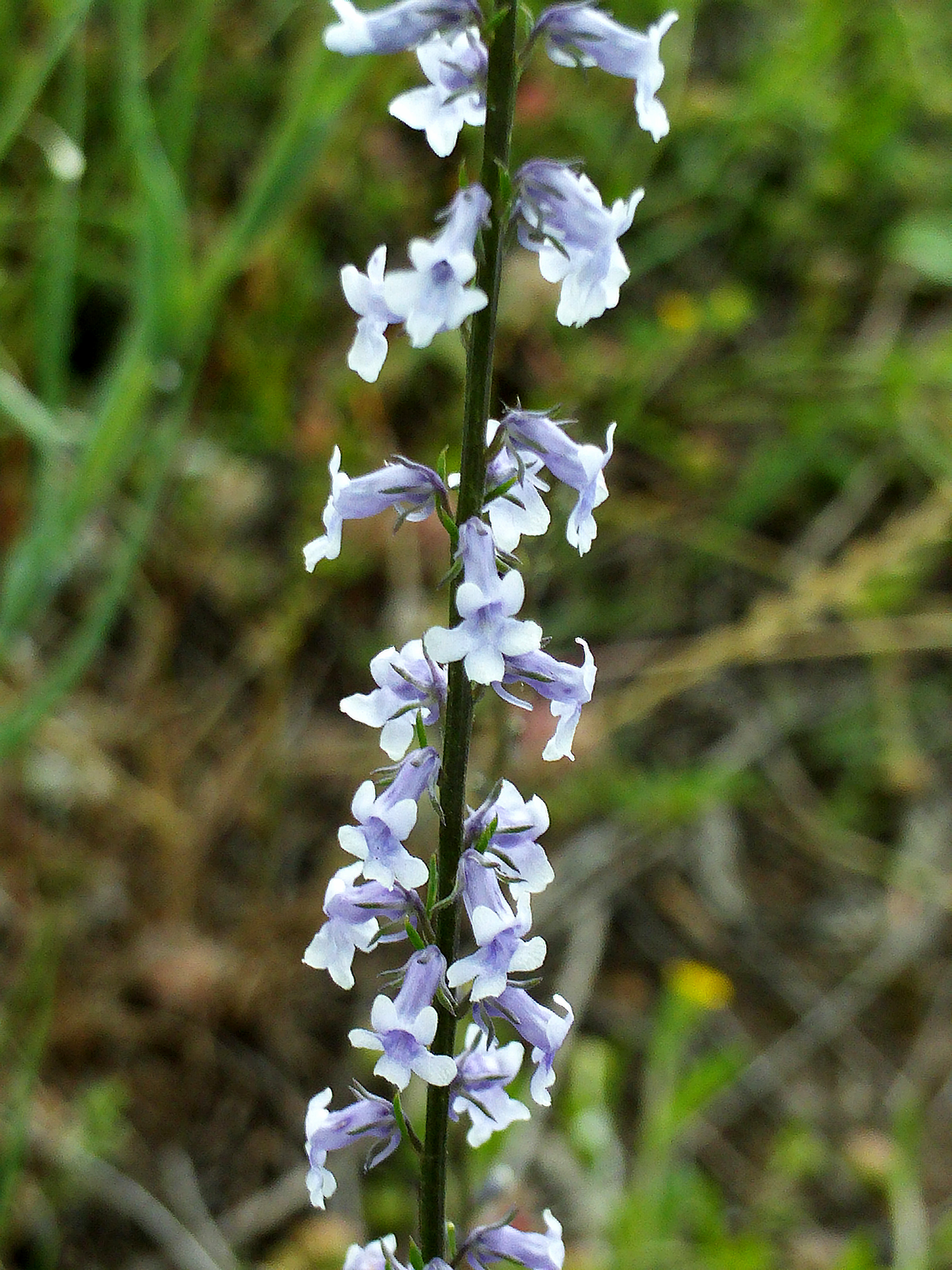 Anarrhinum bellidifolium flowers spike close up, Dehesa Boyal de Puertollano, Spain